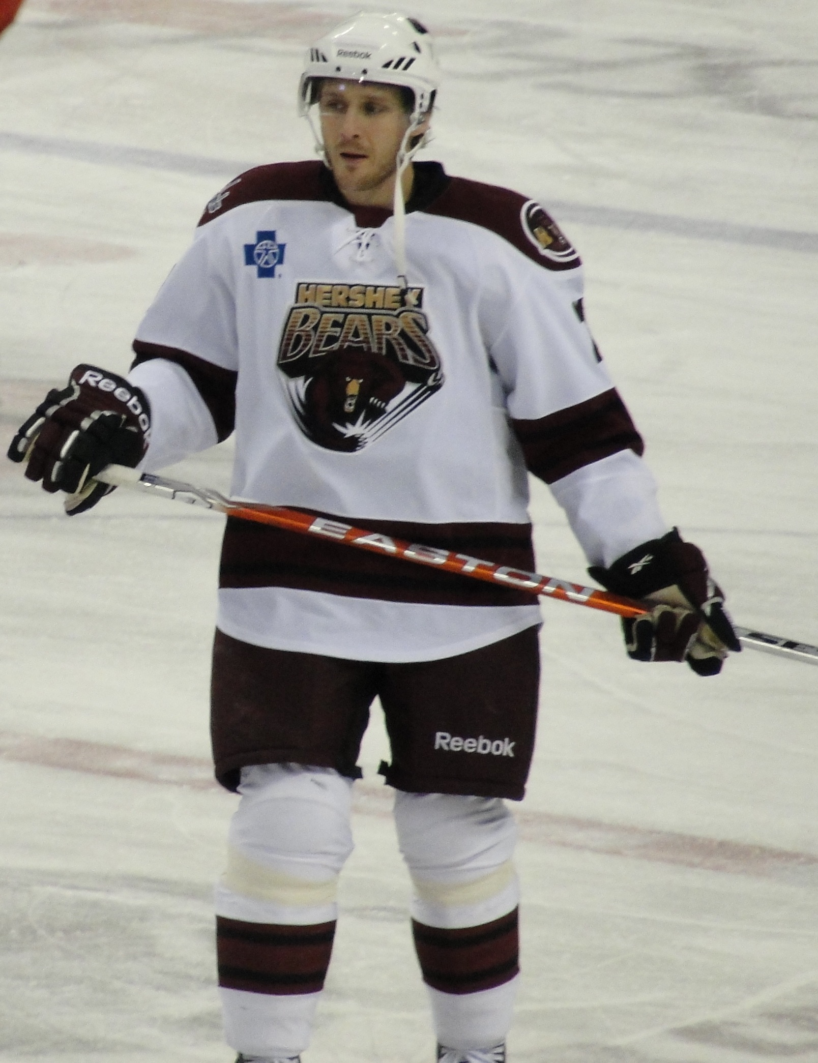 Lawrence Nycholat on November 28 2010 at Giant Center in Hershey PA